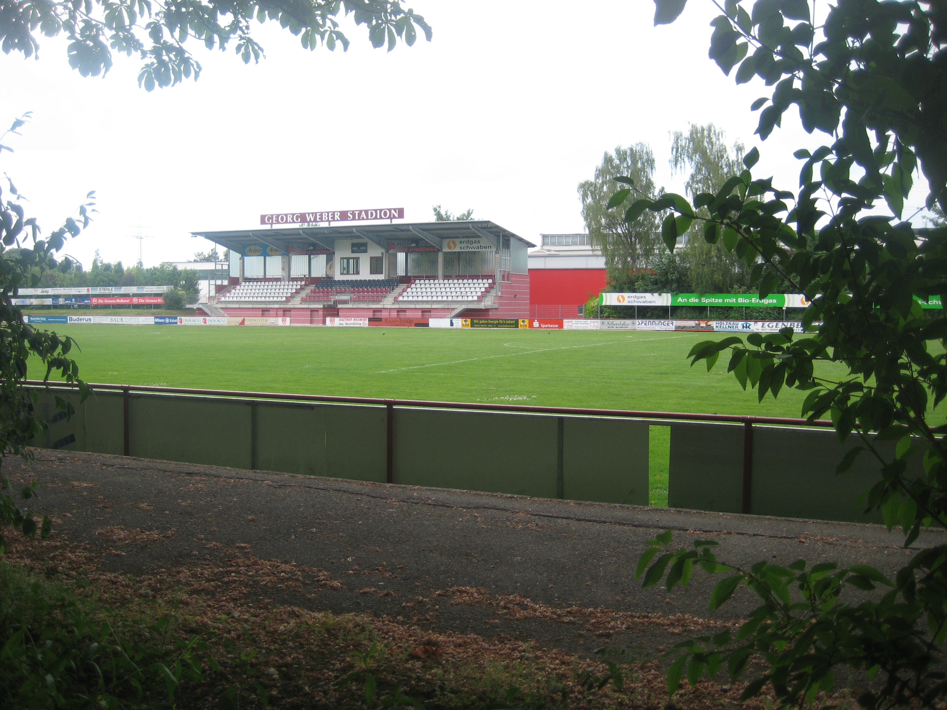 The Georg Weber Stadion, home ground of the TSV Rain am Lech, in Rain am Lech, Bavaria.